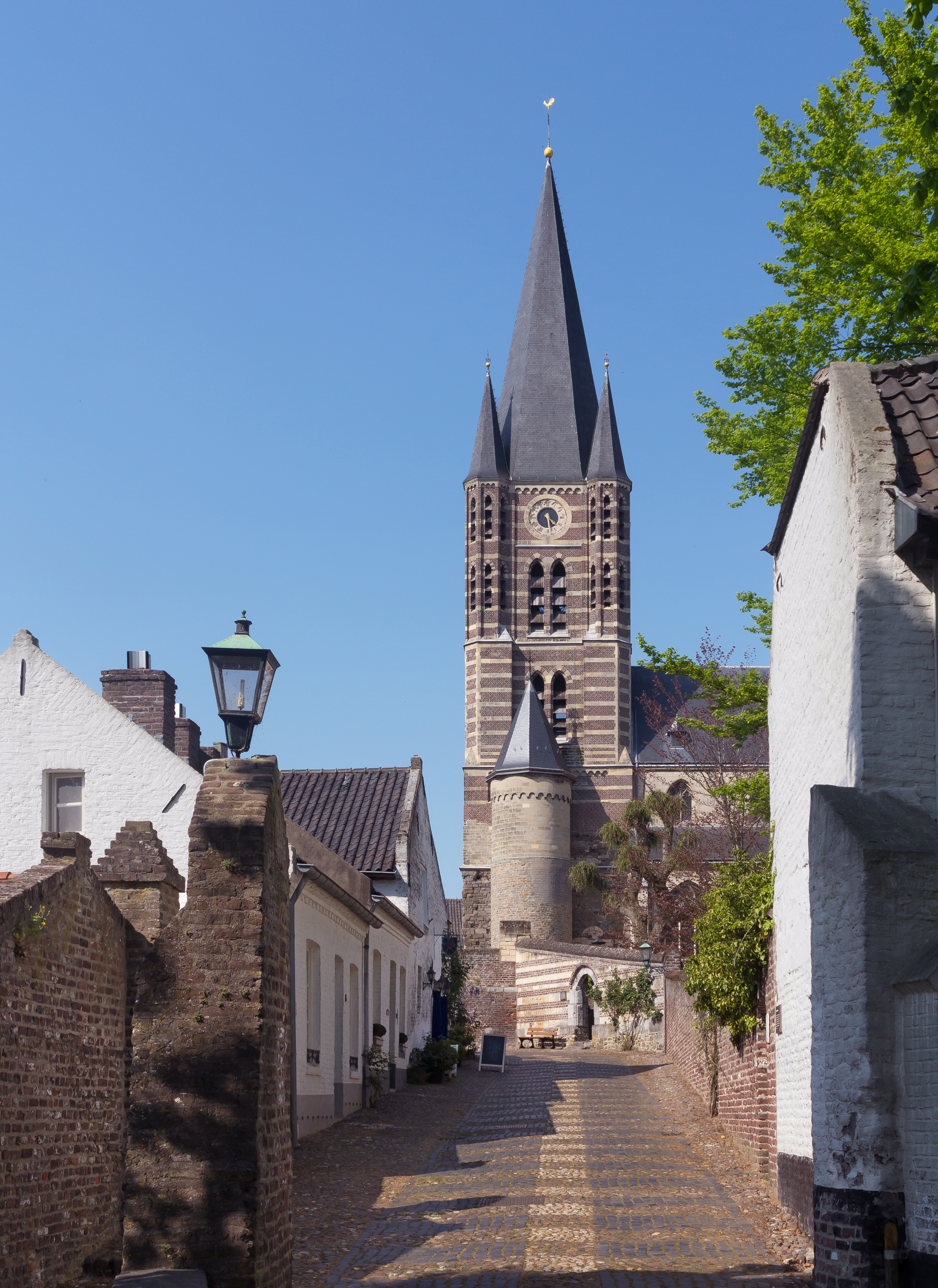 Thorn, churchtower: de Abdijkerk